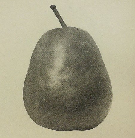 Notaire Lépin (pear).